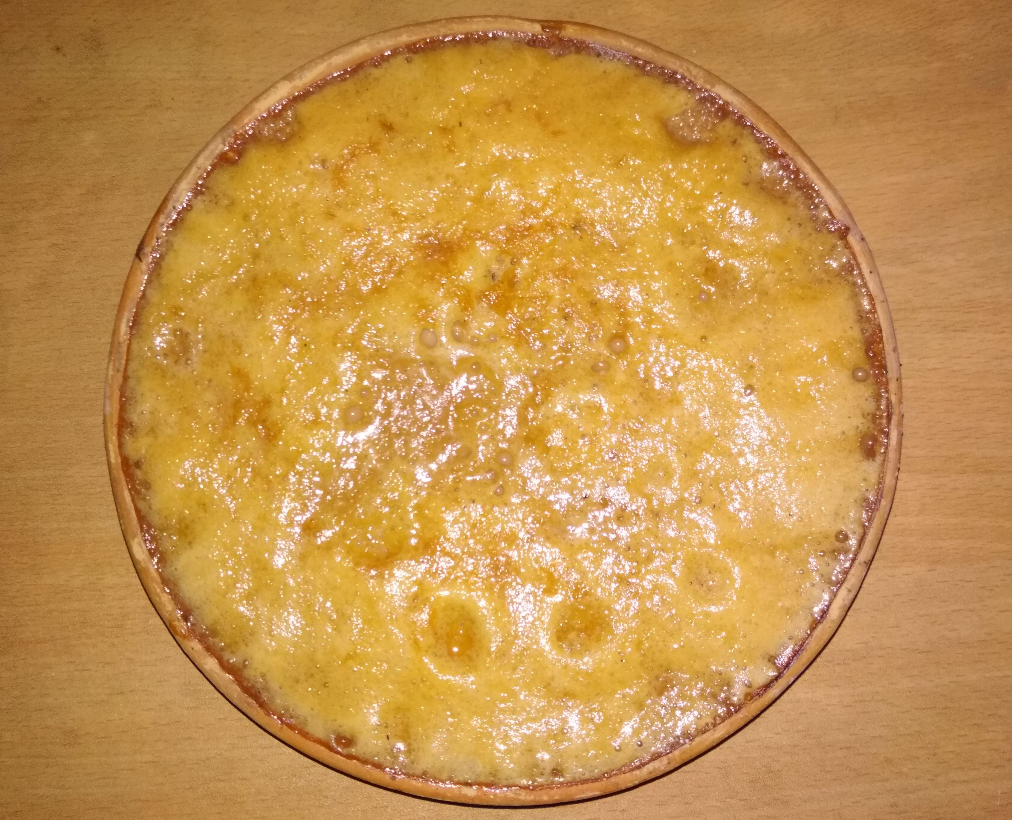 Dahi of Bogura